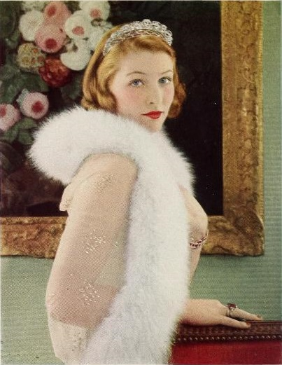 Whitney Bourne